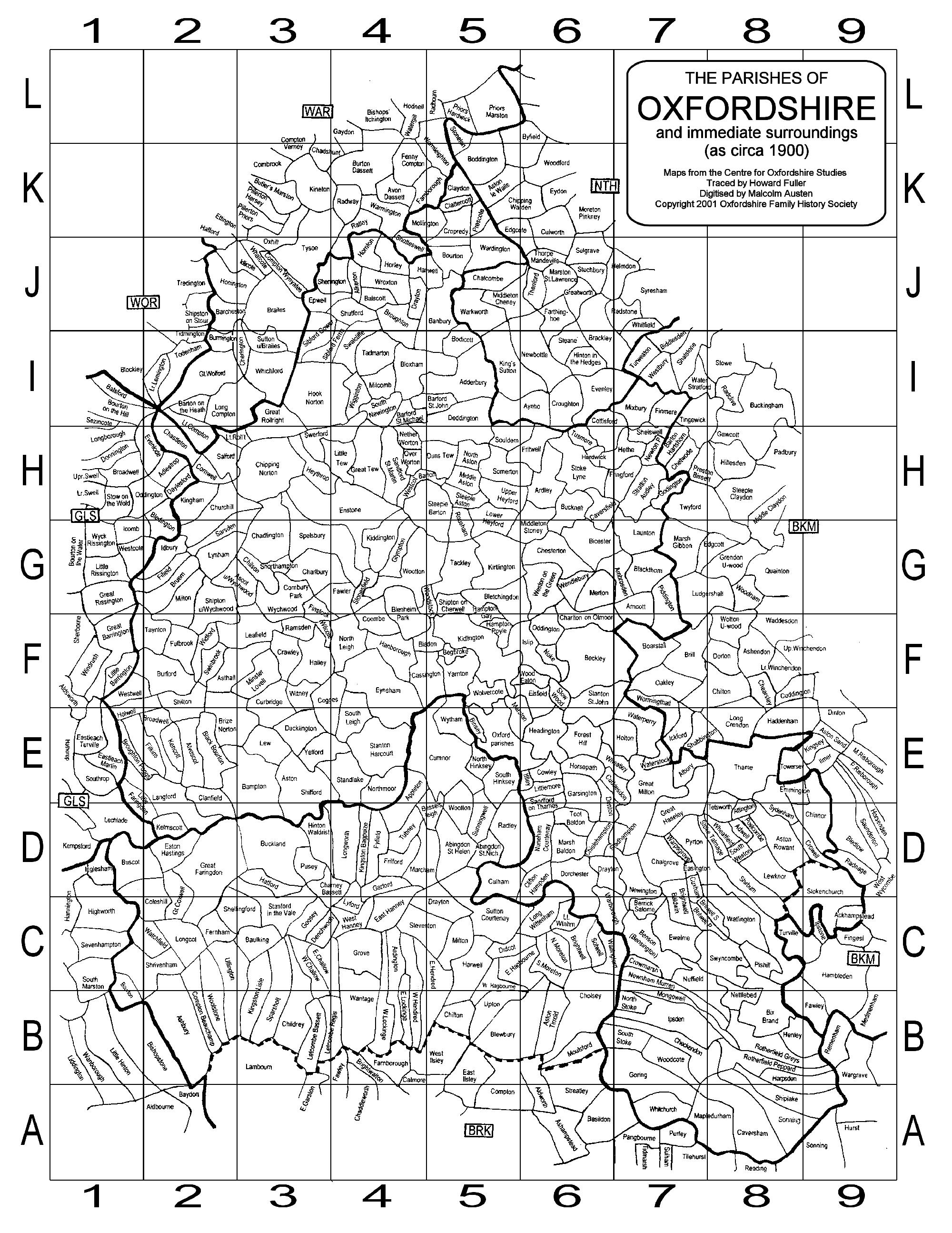 Map of parishes in and around Oxfordshire and north Berkshire in about 1900